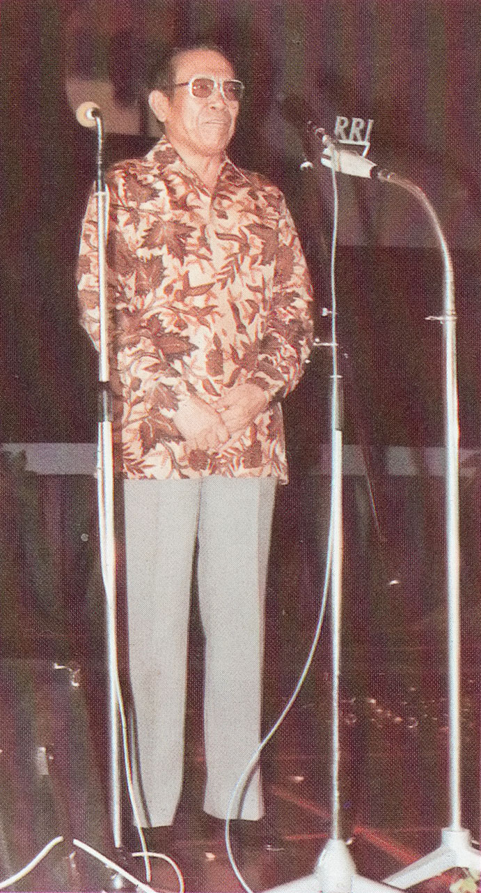 Ali Moertopo closing the 1982 Indonesian Film Festival in Jakarta